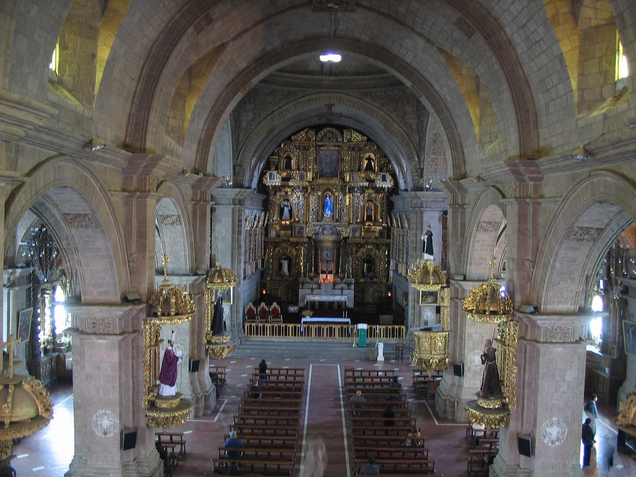 Inside of San Francisco in La Paz, Bolivia Photo's Author : User:Anakin